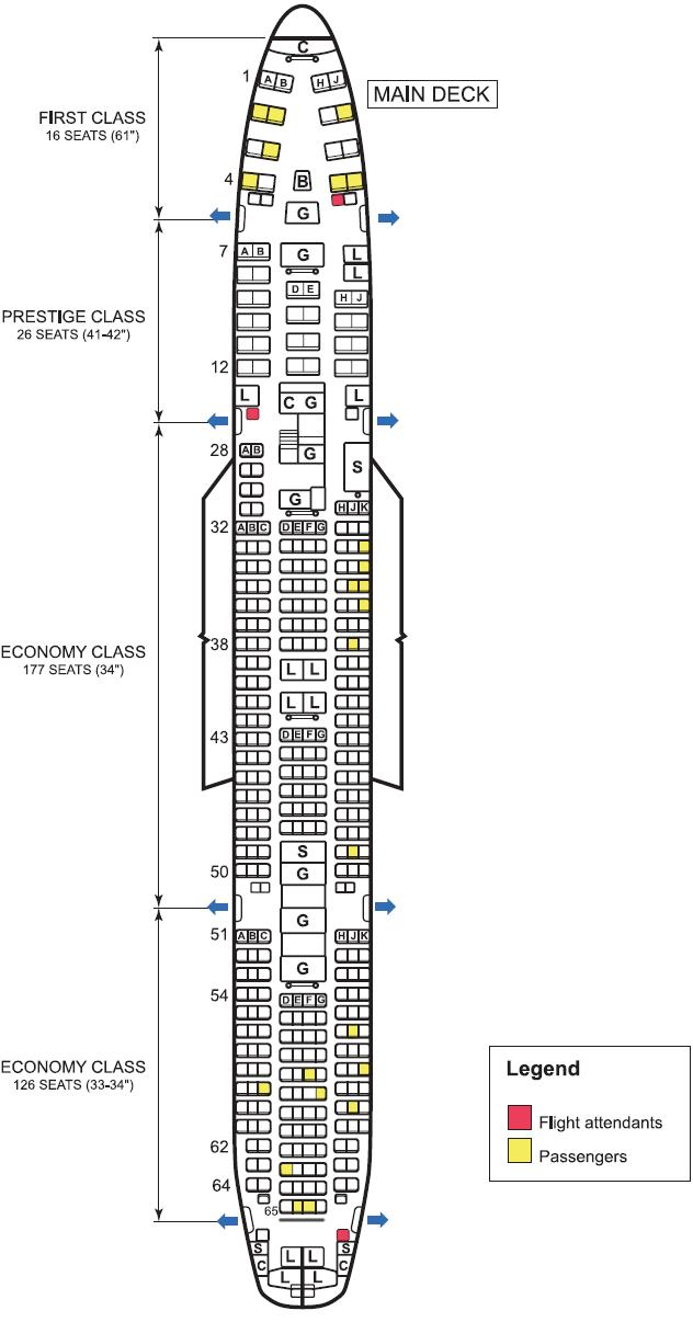 Seat plan for the lower deck of Korean Air Flight 801 from the NTSB (English), indicating surviving passengers and flight attendants. There were no survivors on the upper deck of the airplane.